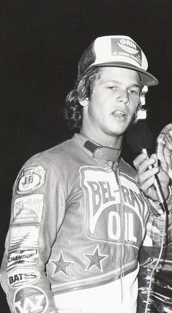 A young Bobby Schwartz in 1981